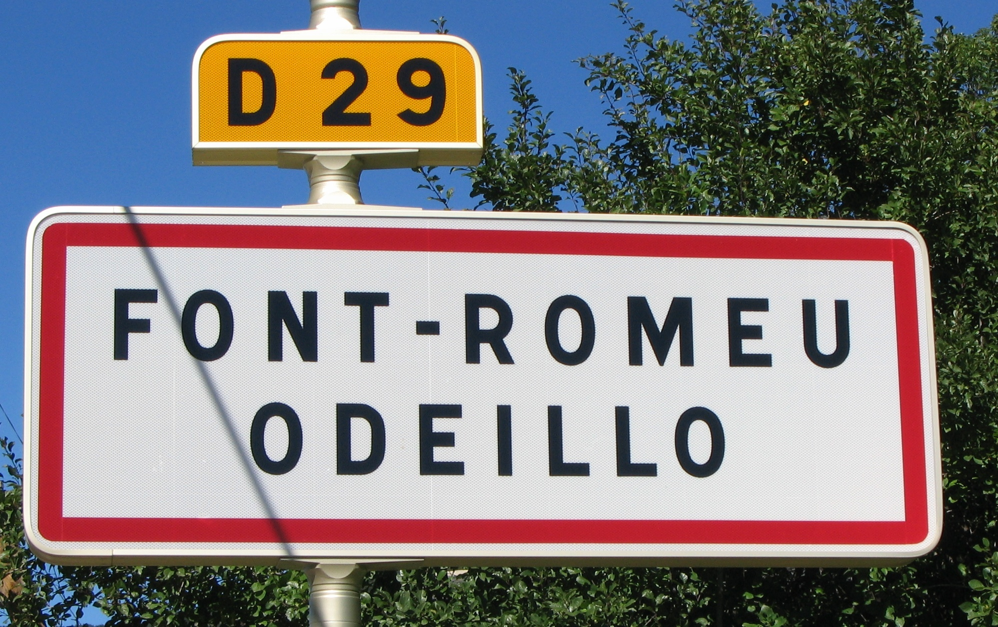 Road-sign of Font-Romeu-Odeillo.